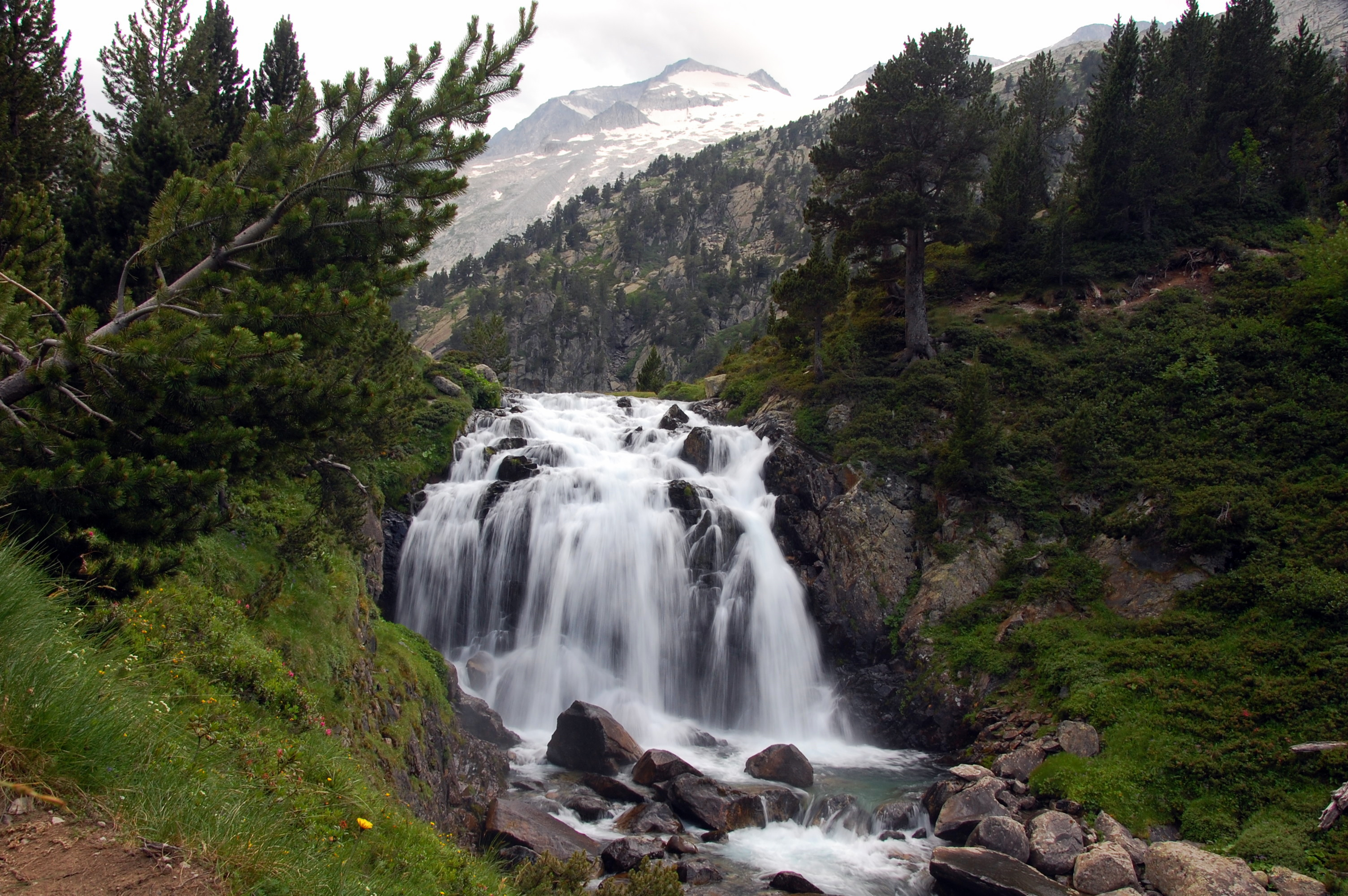 Aigualluts waterfall (Benasque, Huesca, Aragon, Spain)